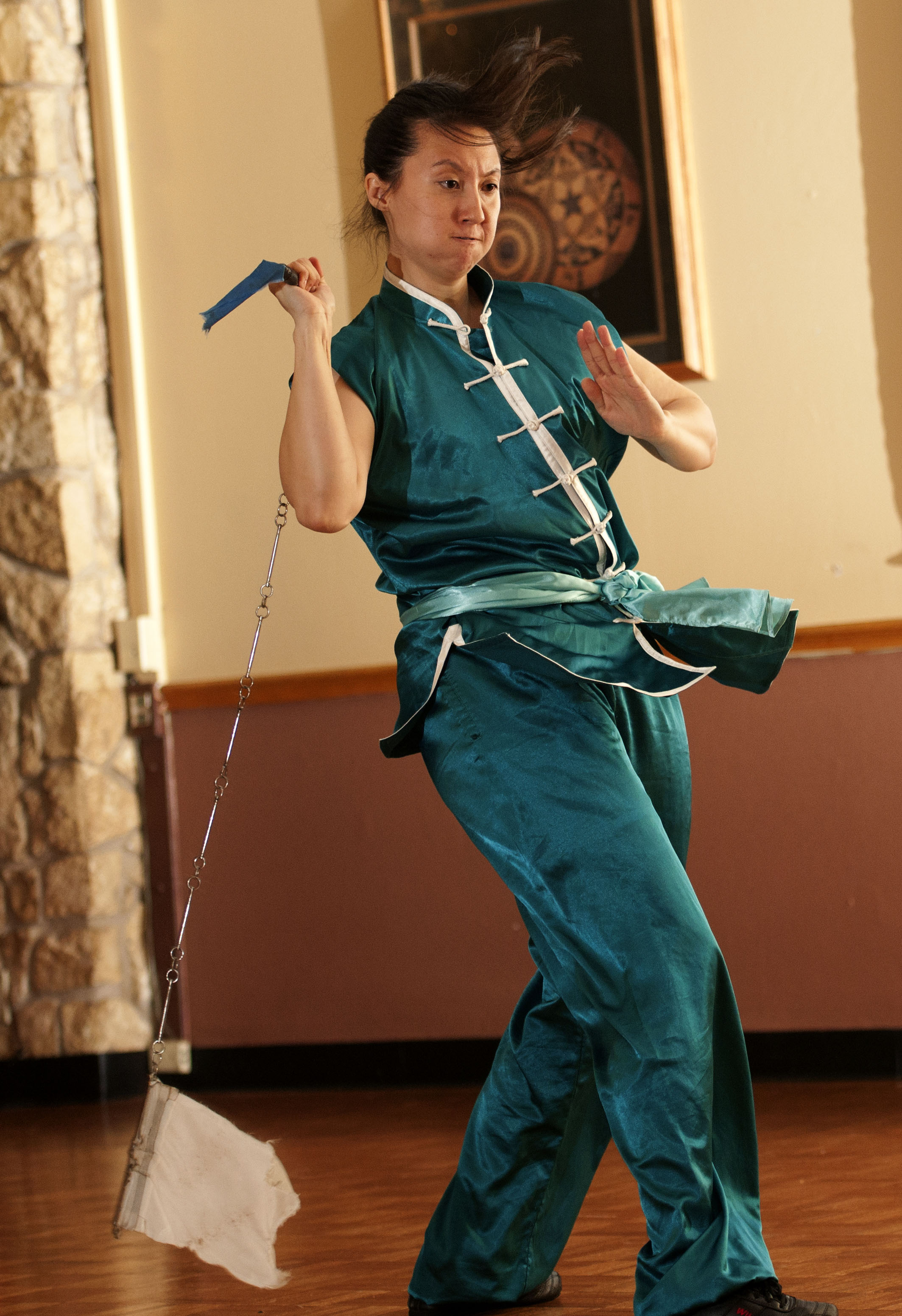 ALTUS AIR FORCE BASE, Okla. -- Suny Stanfield, student at the Southwest Institute of Chinese Martial Arts, Lawton Okla., performs a modern Wushu steel whip chain demonstration during the Asian American and Pacific Islander Heritage Month Kickoff celebration, May 1. Asian American and Pacific Islander Heritage Month is a celebration of the culture, traditions and history of Asian Americans and Pacific Islanders in the United States. Asian Americans and Pacific Islanders comprise many ethnicities and languages, and their myriads of achievements embody the American experience.